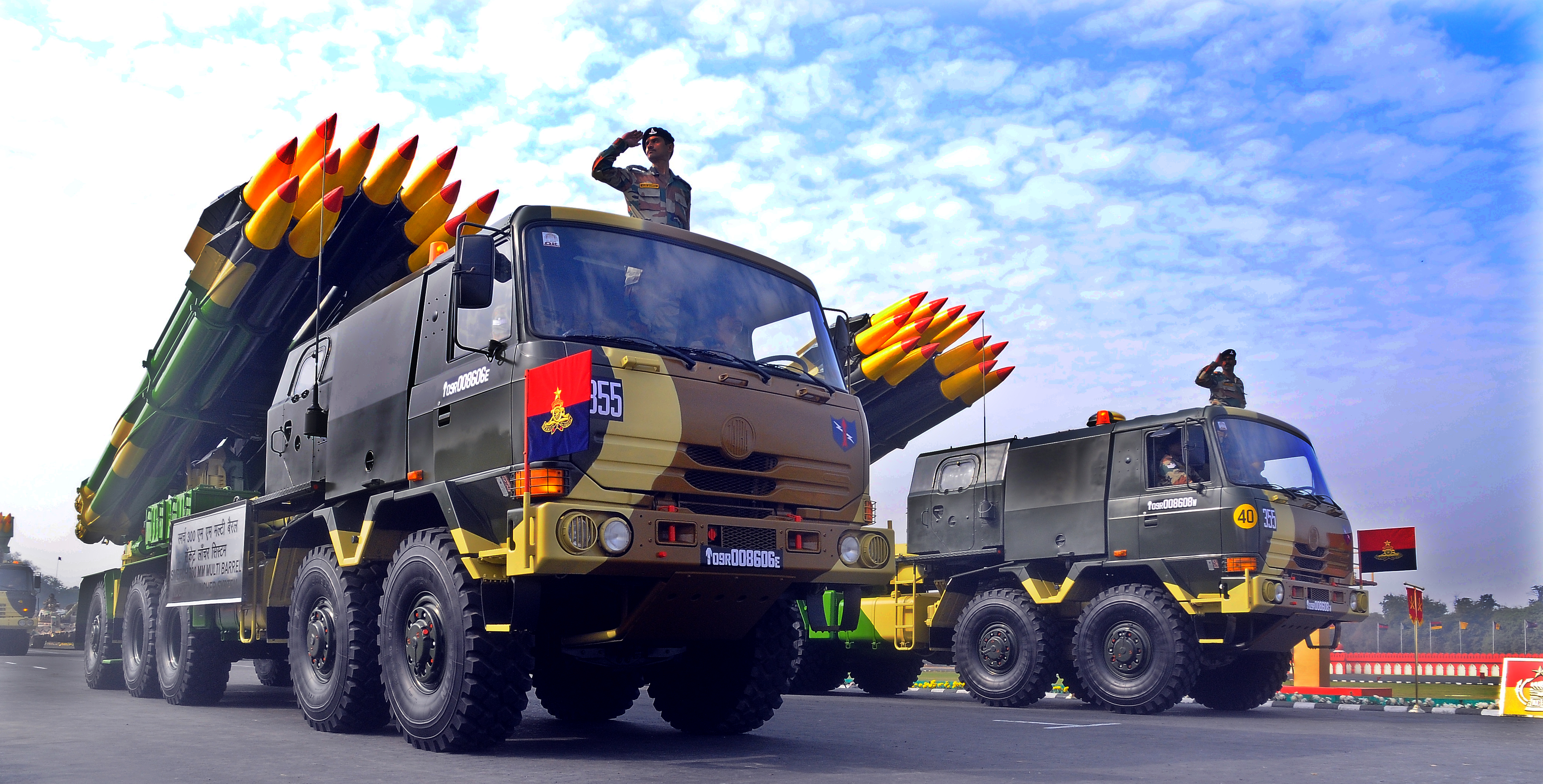 Smerch 300 MM MULTI BARREL ROCKET LAUNCHER